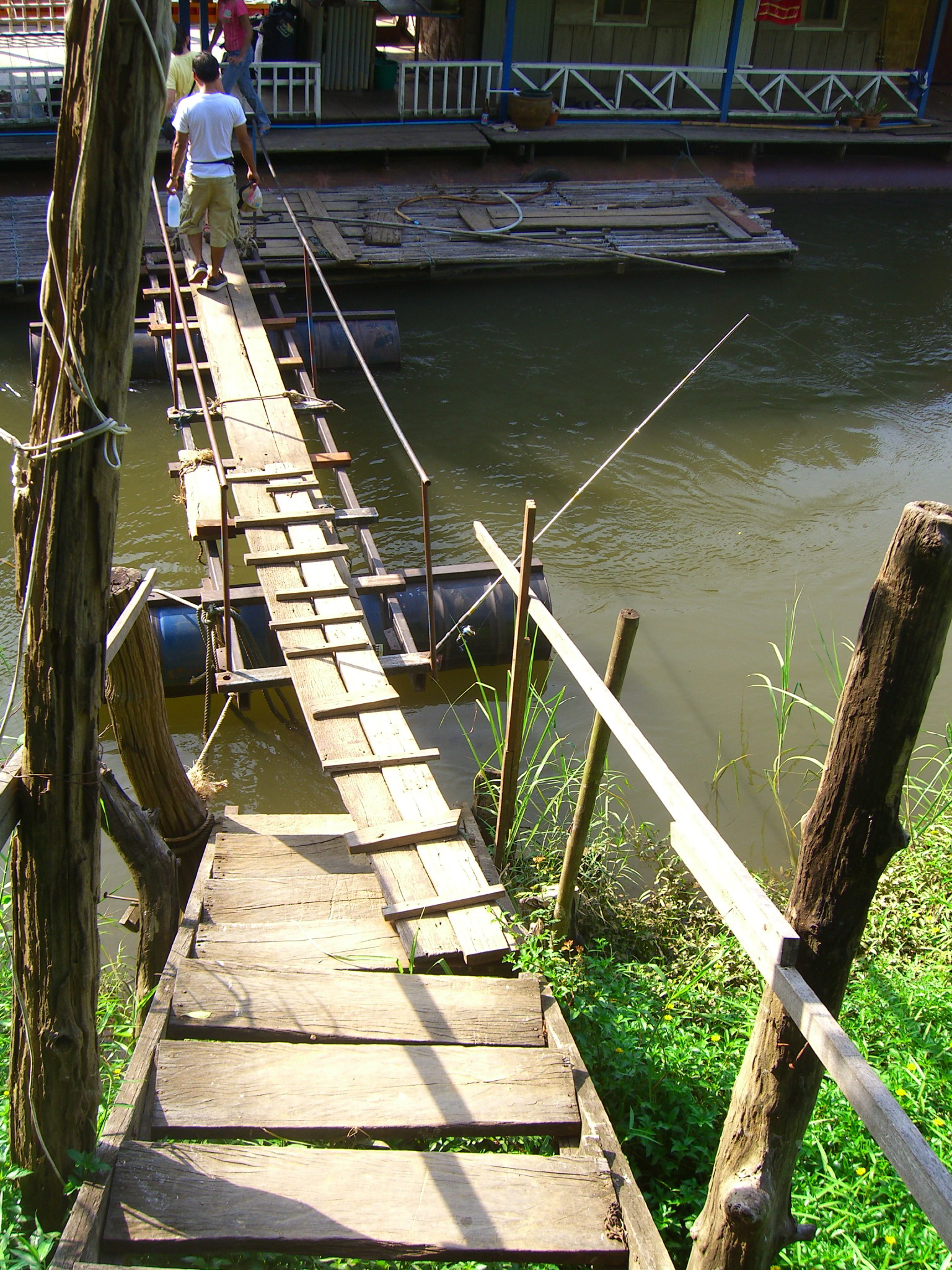 Description at Flickr by contributor: mmm...breakfast. not a good idea to try to maneuver this bridge if one suffers from dizziness or vertigo.